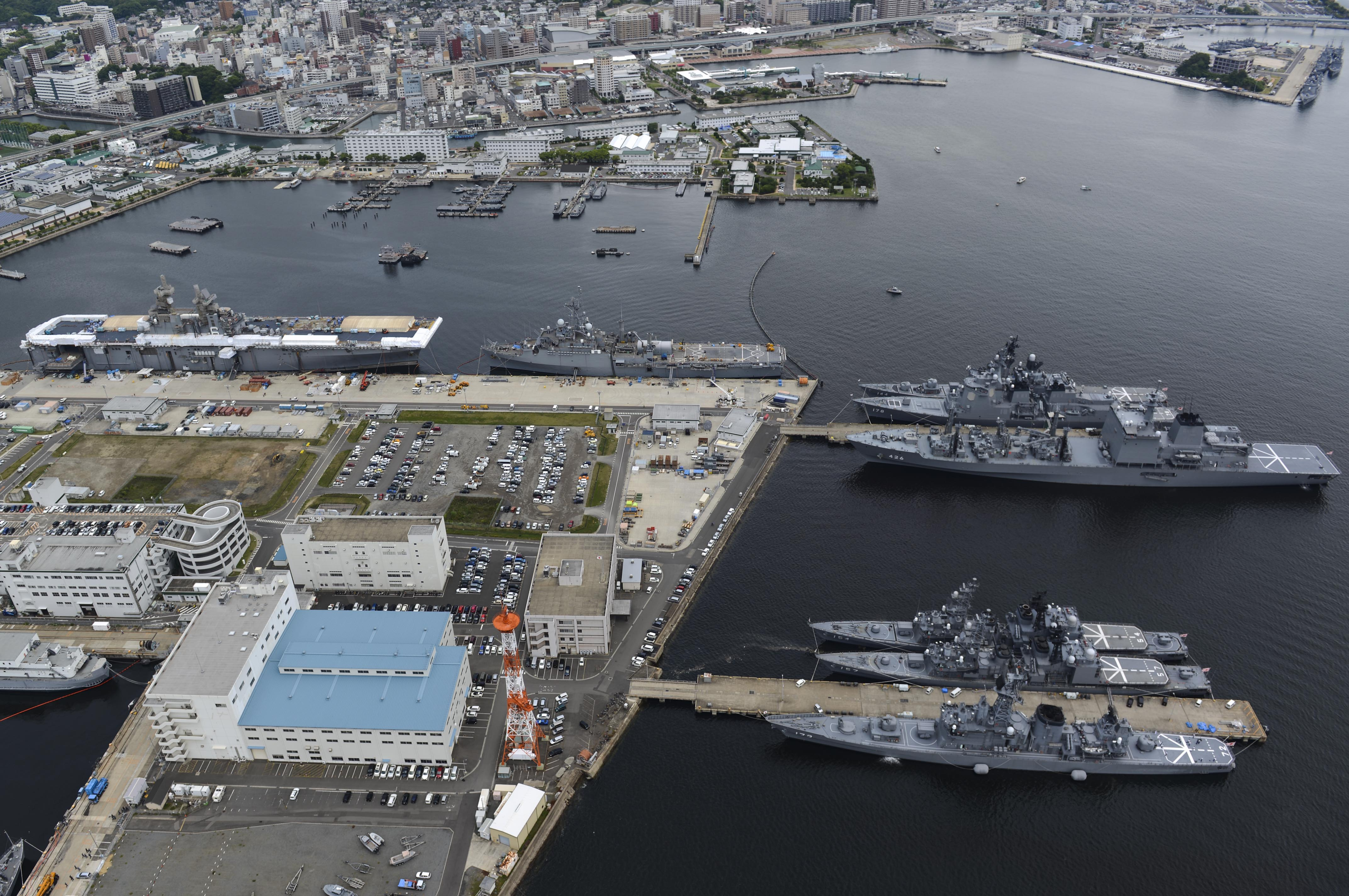 The U.S. Navy amphibious assault ship USS Bonhomme Richard (LHD-6), left, the Austin-class amphibious transport dock ship USS Denver (LPD-9), the Whidbey Island-class amphibious dock landing ship USS Germantown (LSD-42), and ships assigned to the Japan Maritime Self-Defense Force are moored at Fleet Activities Sasebo, Japan. Bonhomme Richard was undergoing a maintenance period.